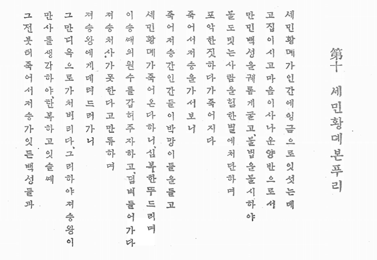 See File:朝鮮巫俗の研究 上券.pdf